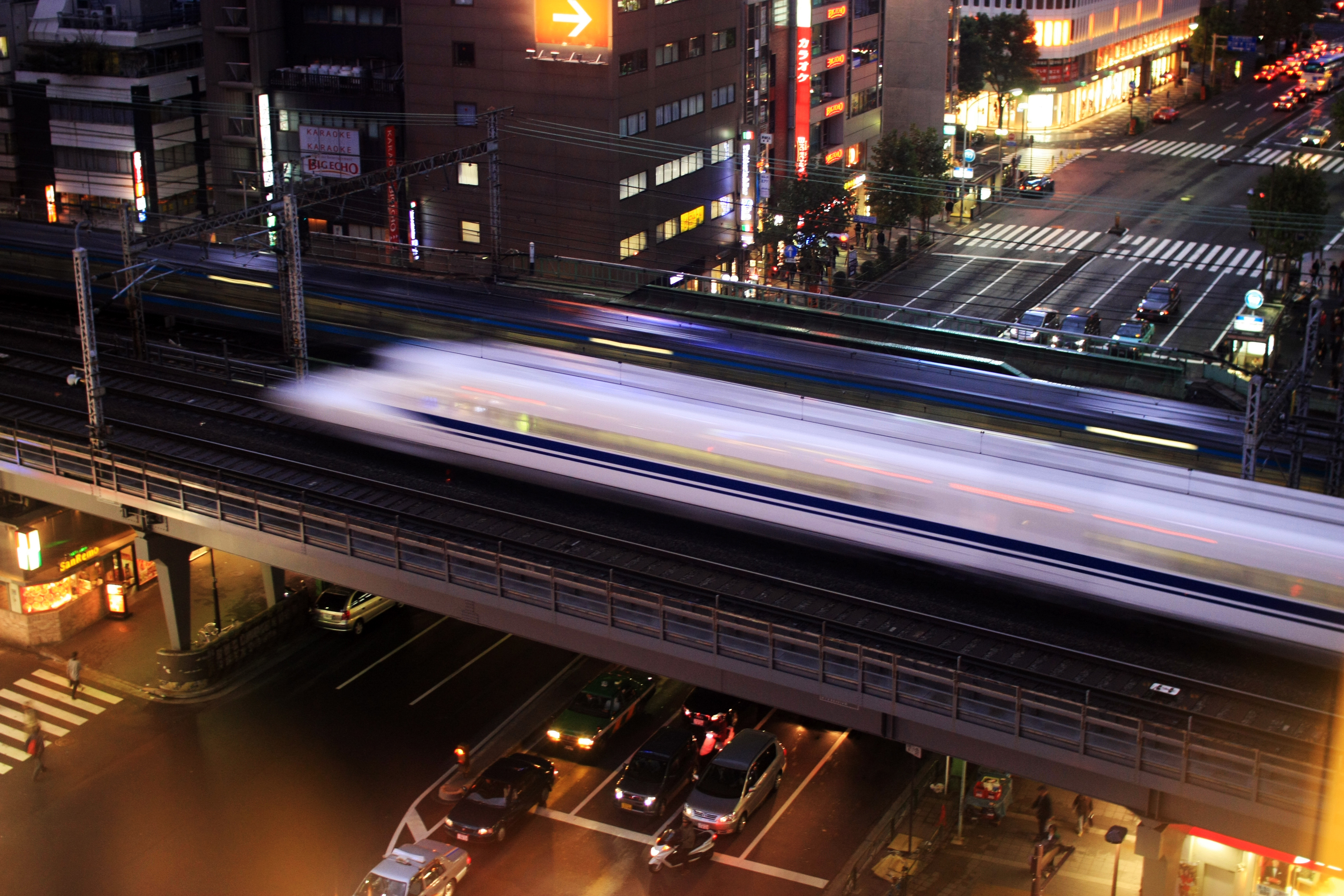 Shinkansen traveling through Yurakucho, Tokyo Japan